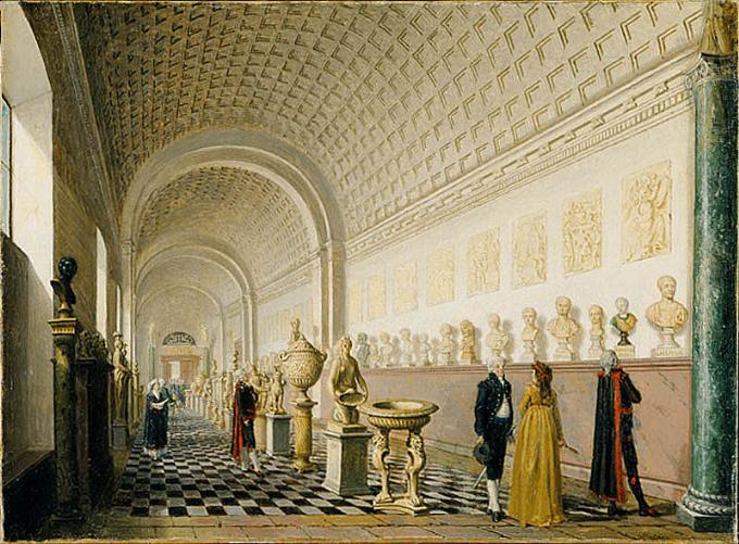 Gustav III's Museum of Antiquities, The Royal Palacelabel QS:Len,"Gustav III's Museum of Antiquities, The Royal Palace"